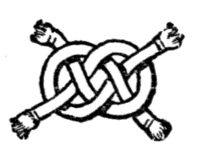 Fig. 685.—Wake or Ormonde Knot.